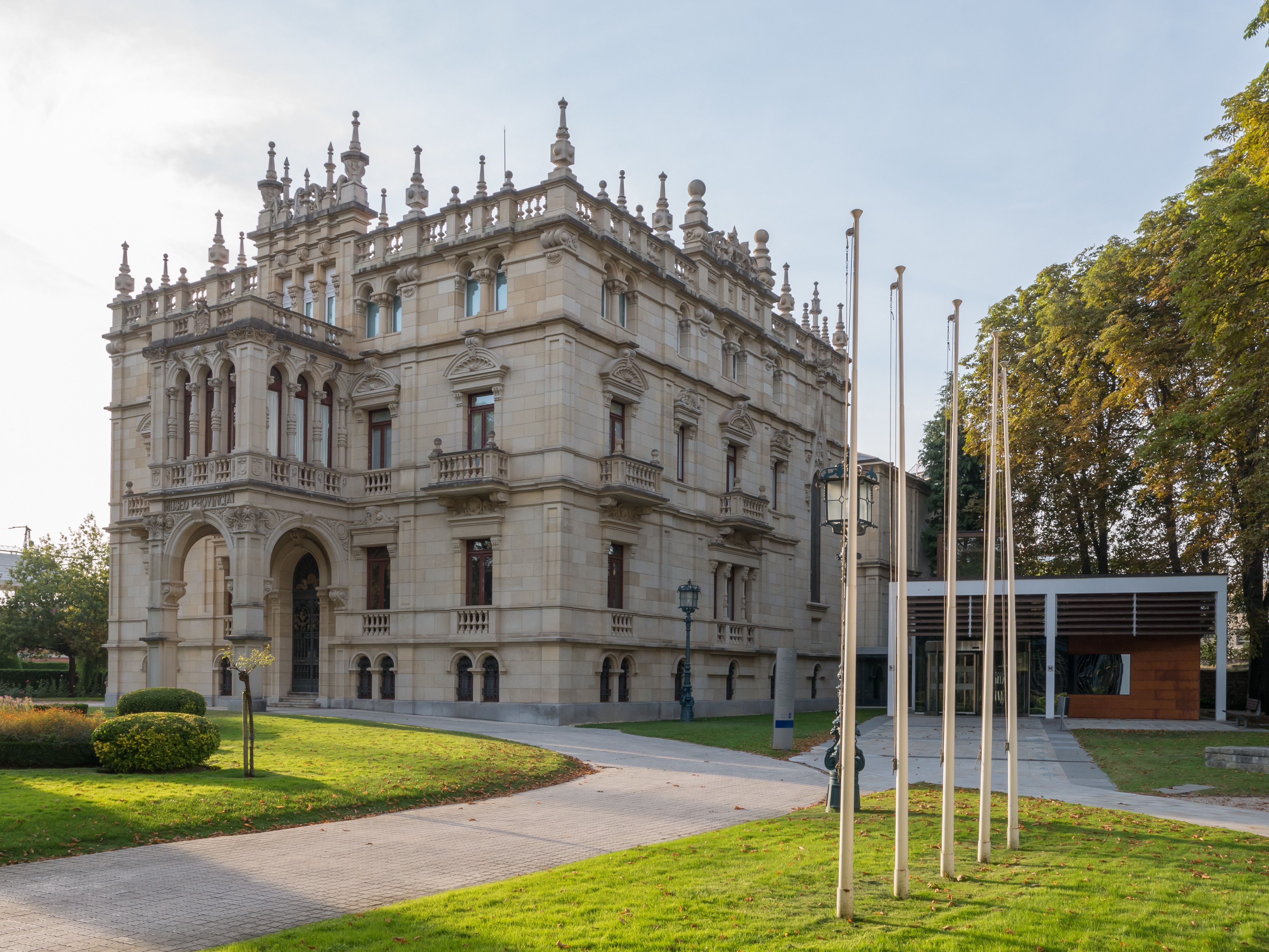 Museum of Art of Álava. Vitoria-Gasteiz, Basque Country, Spain